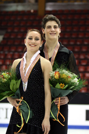 Vanessa Crone and Paul Poirier during the ice dancing medal ceremony at the 2008 World Junior Figure Skating Championships. They won the silver medal.